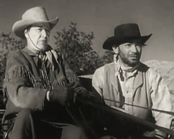 Louise Lorimer & Leonard Strong in the TV-series The Lone Ranger, episode Cannonball McKay (cropped screenshot)